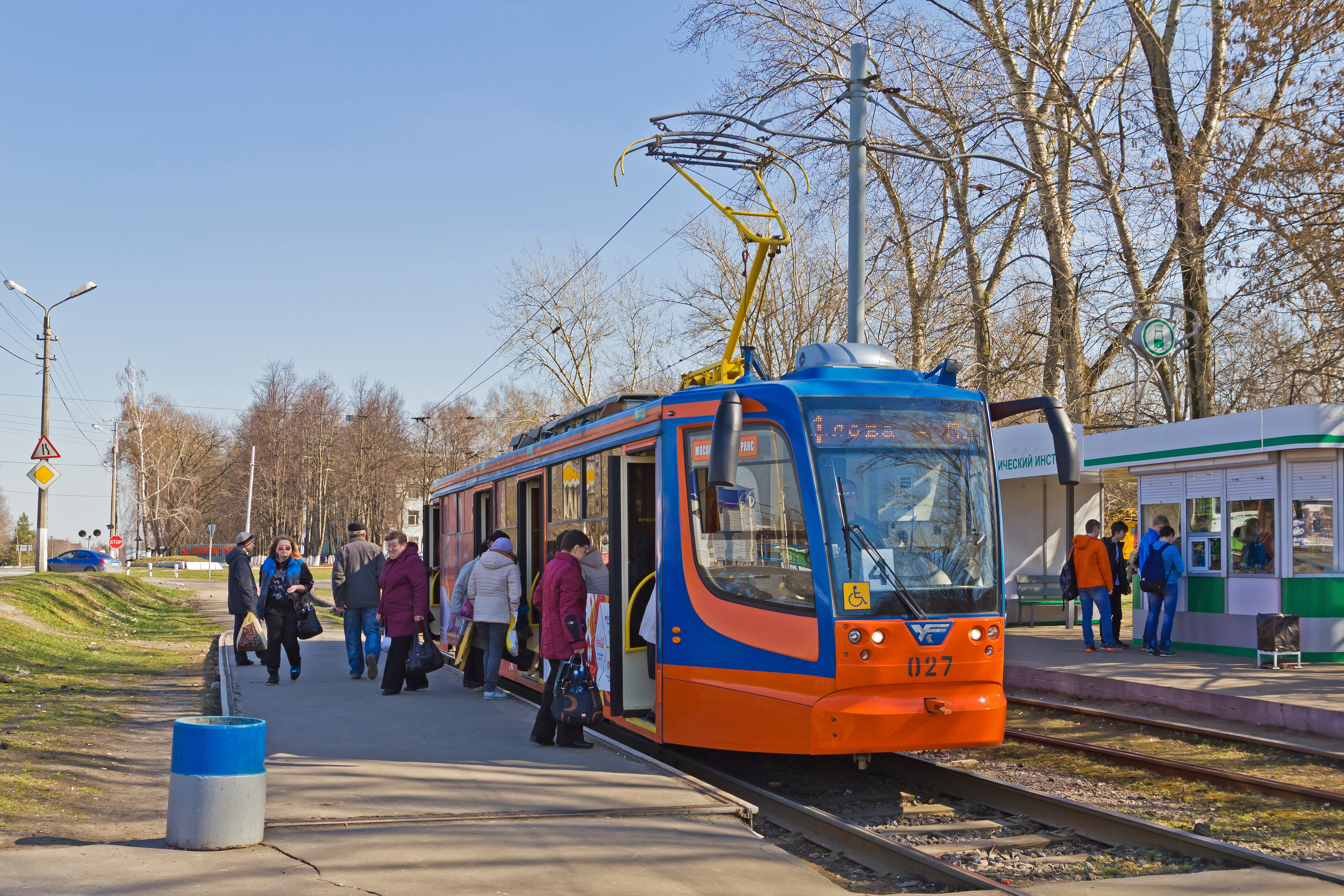 KTM-23 tram in Kolomna, Moscow Oblast, Russia.